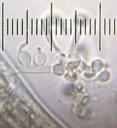 A dead nematode with fungus growing out of it. I sent this image to an apparent expert on nematophagous fungi, and he identified it as Harposporium anguillulae. See this page on the Nematophagous Fungi Guide. This image was taken using my 60× objective and 15× eyepiece. The numbered ticks on the scale are 20 microns apart. The scale of the full-sized version of this image is such that each pixel represents an area that is a 0.0464-micron square.